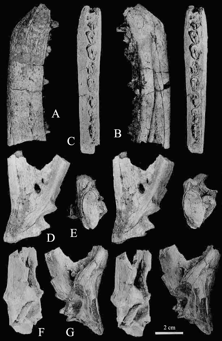 Posterior part of left mandible of Bagaraatan ostromi, stereophotographs. in lateral, posterior, dorsal, and medial views. Scale bar - 2 cm.